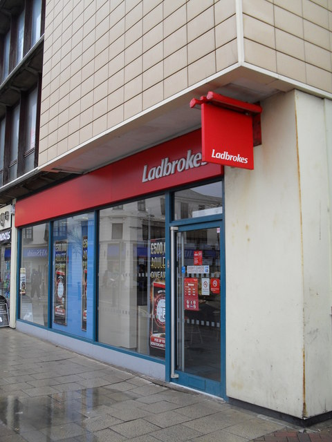 Ladbrokes in South Street